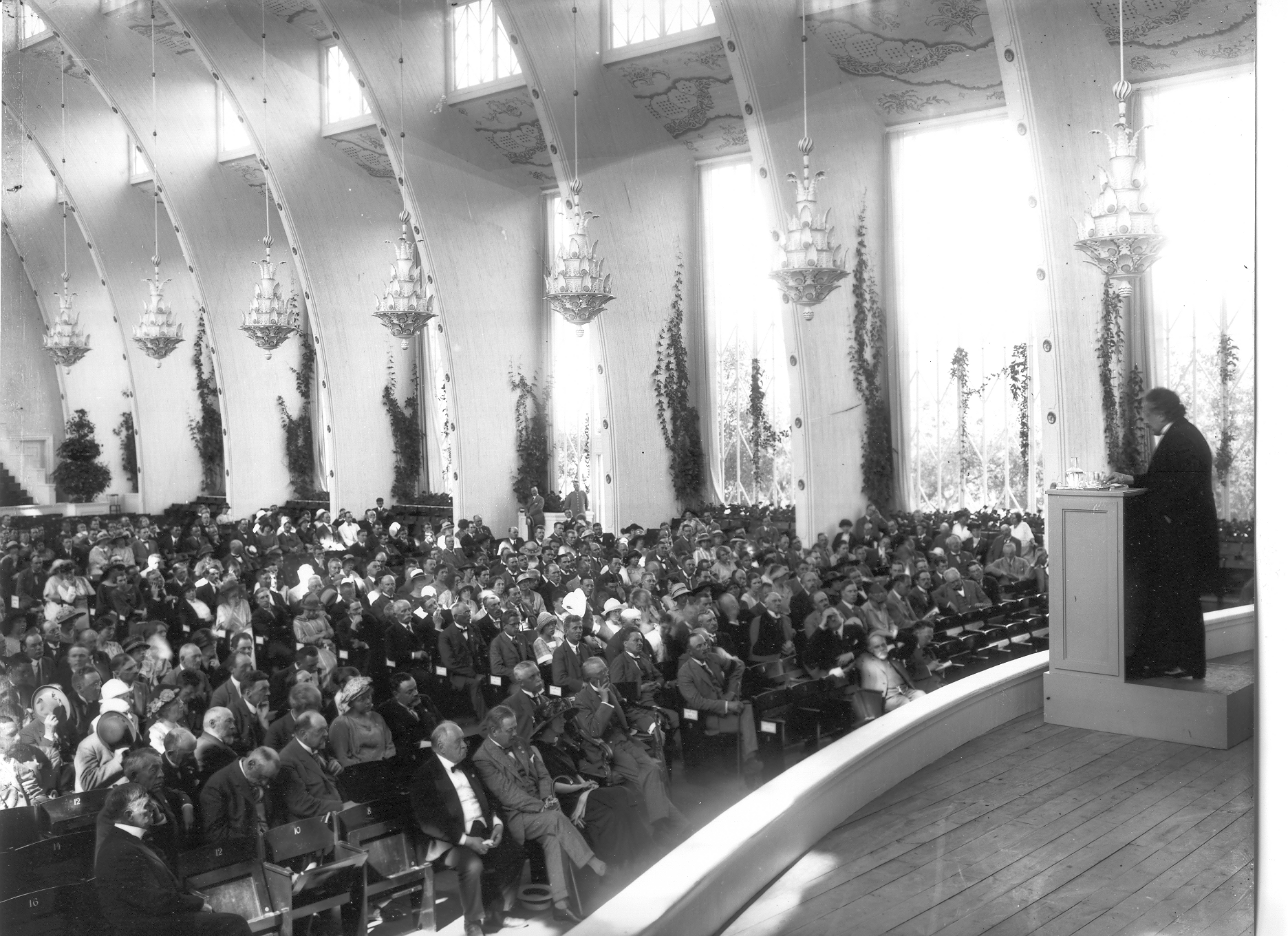 Einstein speaks in Gothenburg, Sweden 1923